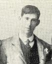 A snip from a larger circa 1905 photo of English professional golfer Albert "Bertie" Snowball (1887-1915). He was killed in action in World War I on 9 May 1915 near Flanders, France.